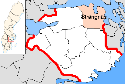 Strängnäs Municipality in Södermanland County